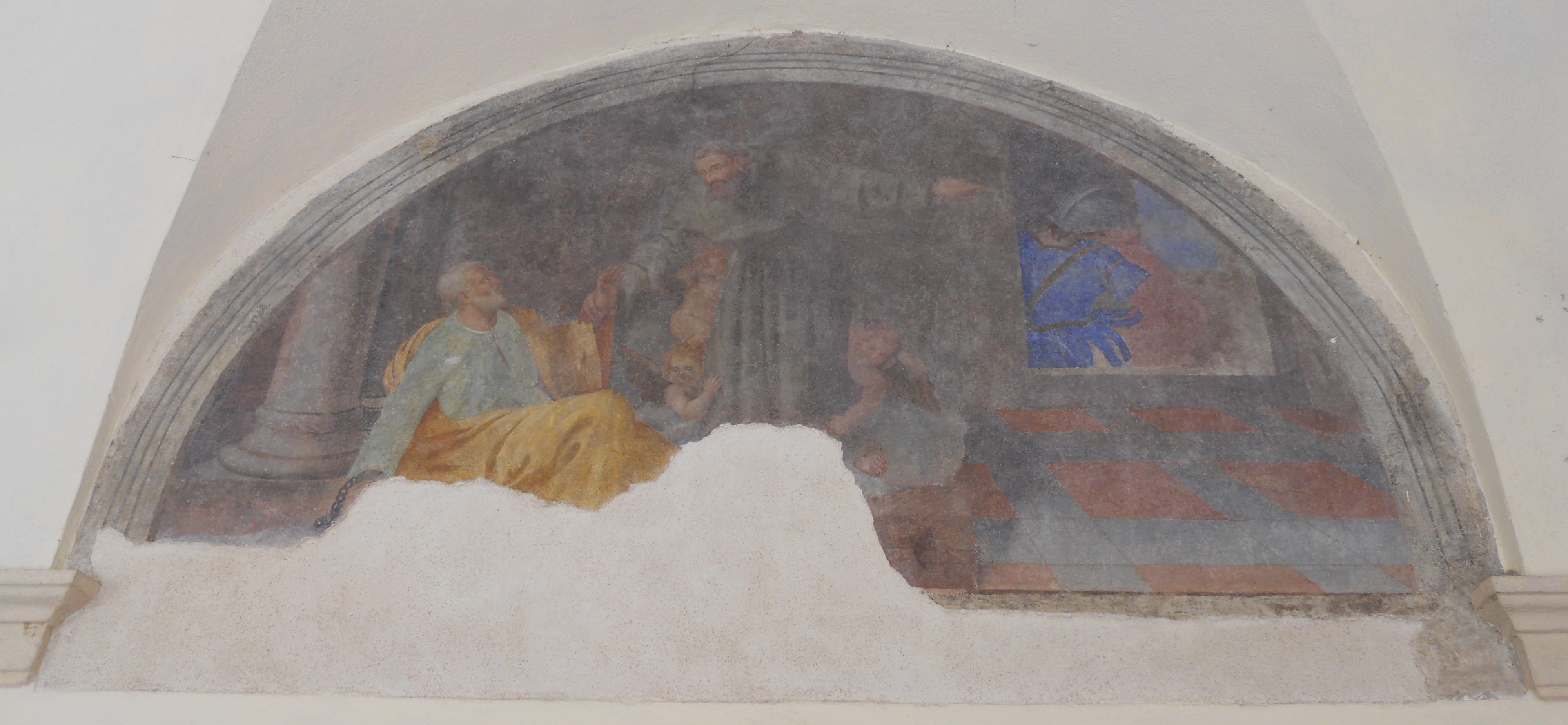 3rd fresco from left, on the West side - cloister of St. Francis - Rieti, Italy